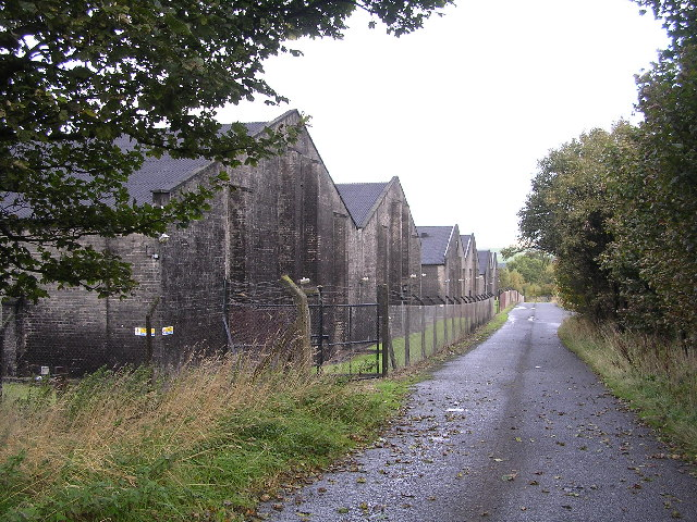 Bonded warehouses at Buchley. Bonded warehouses where goods can be stored without paying any import tax. Tax is only paid when the goods leave the warehouse. This system allows the owner to sell the goods before they pay any tax and means that customs men don't have to be on site when the cargo arrives.